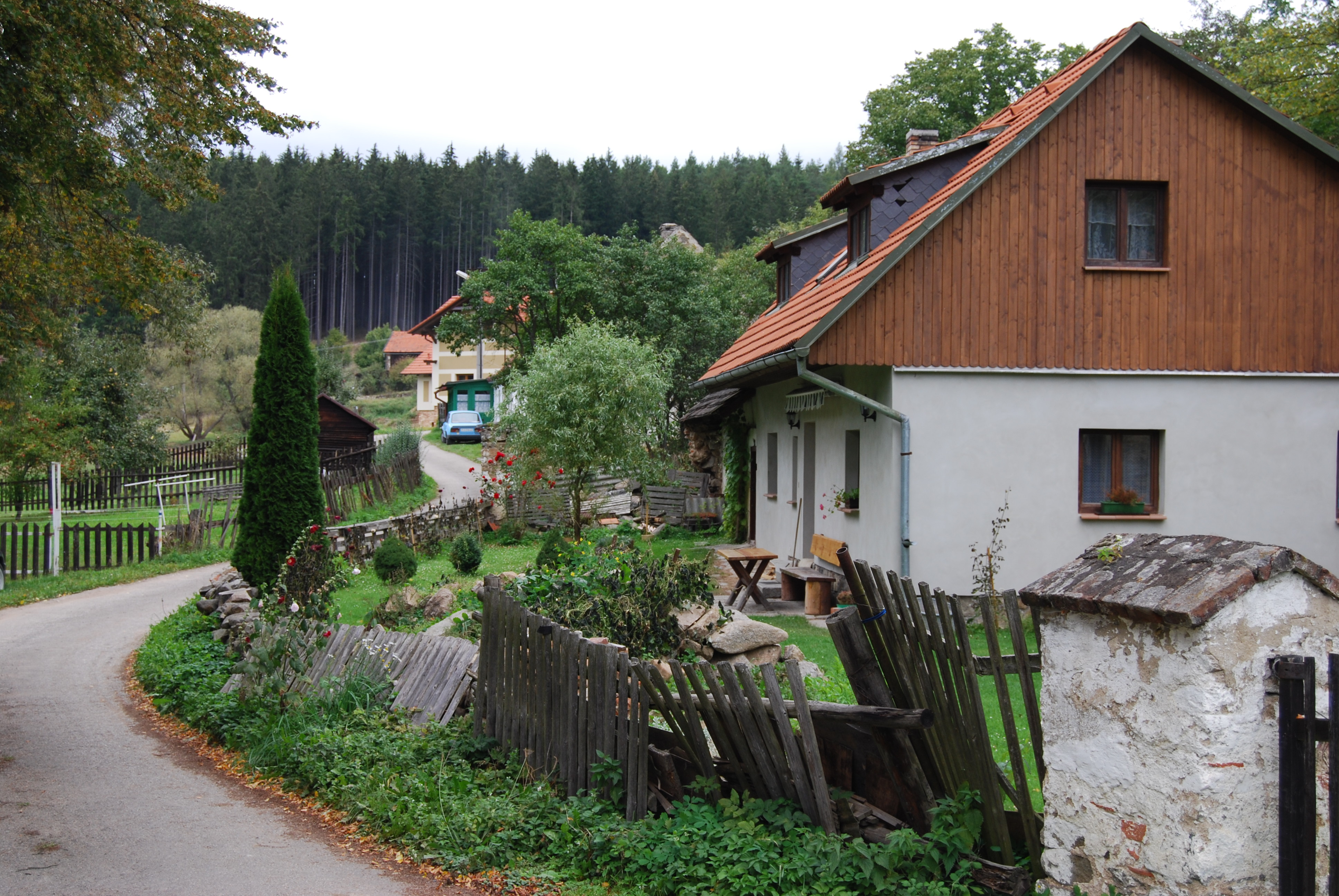 Varvažov village in Pisek District, Czech Republic.